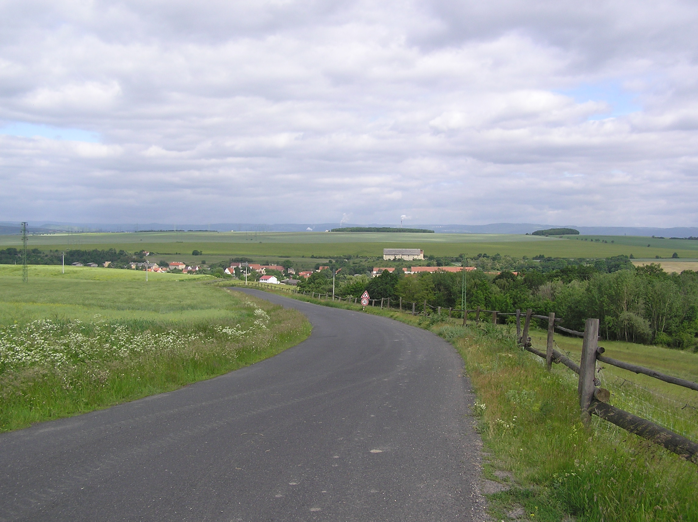 Sedčice - total view